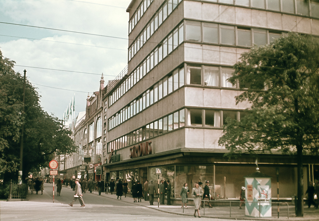 Kungsgatan (King's street) in Gothenburg. Kungsgatan i Göteborg. Parish (socken): Göteborg Province (landskap): Västergötland Municipality (kommun): Göteborg County (län): Västra Götaland Photograph by: Fredrik Bruno Date: 1943 Format: Colour slide See a recent photo of the same view: Kulturmiljöbild: 16001000314564 Kulturmiljöbild: 16001000224664 (Persistent URL) Read more about the photo database (in english)